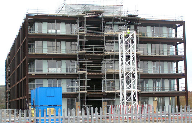 Old Imperial Tobacco Head Quarters This was called the Podium, and from its basement was a tunnel to the factory which has been pulled down. BBC used the tunnel in early Dr Who shots. It is now being converted into accommodation.